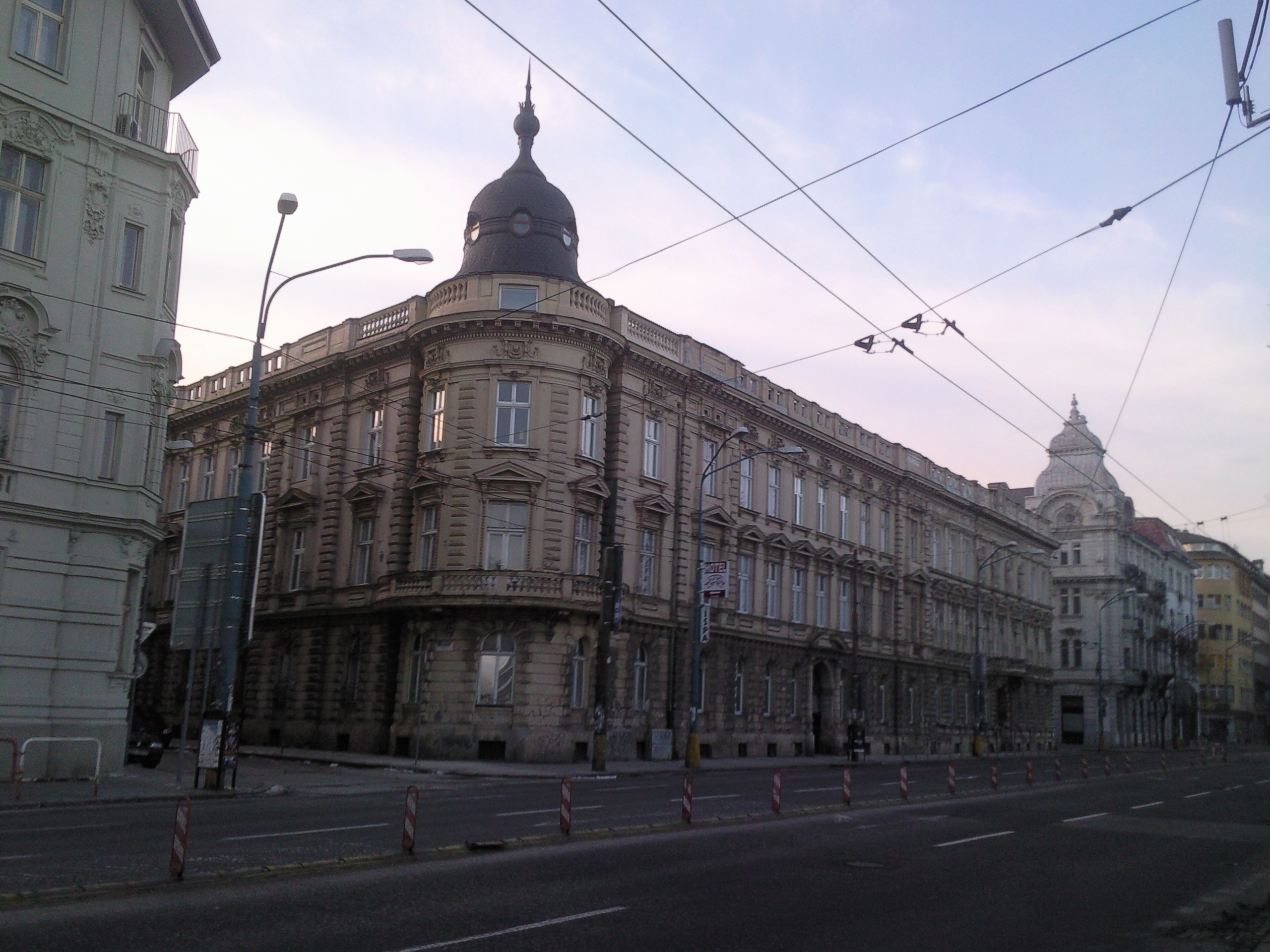 This medium shows the protected monument with the number 101-465/0 in the Slovak Republic. Swetlikov dom, Štefánikova 5, Bratislava